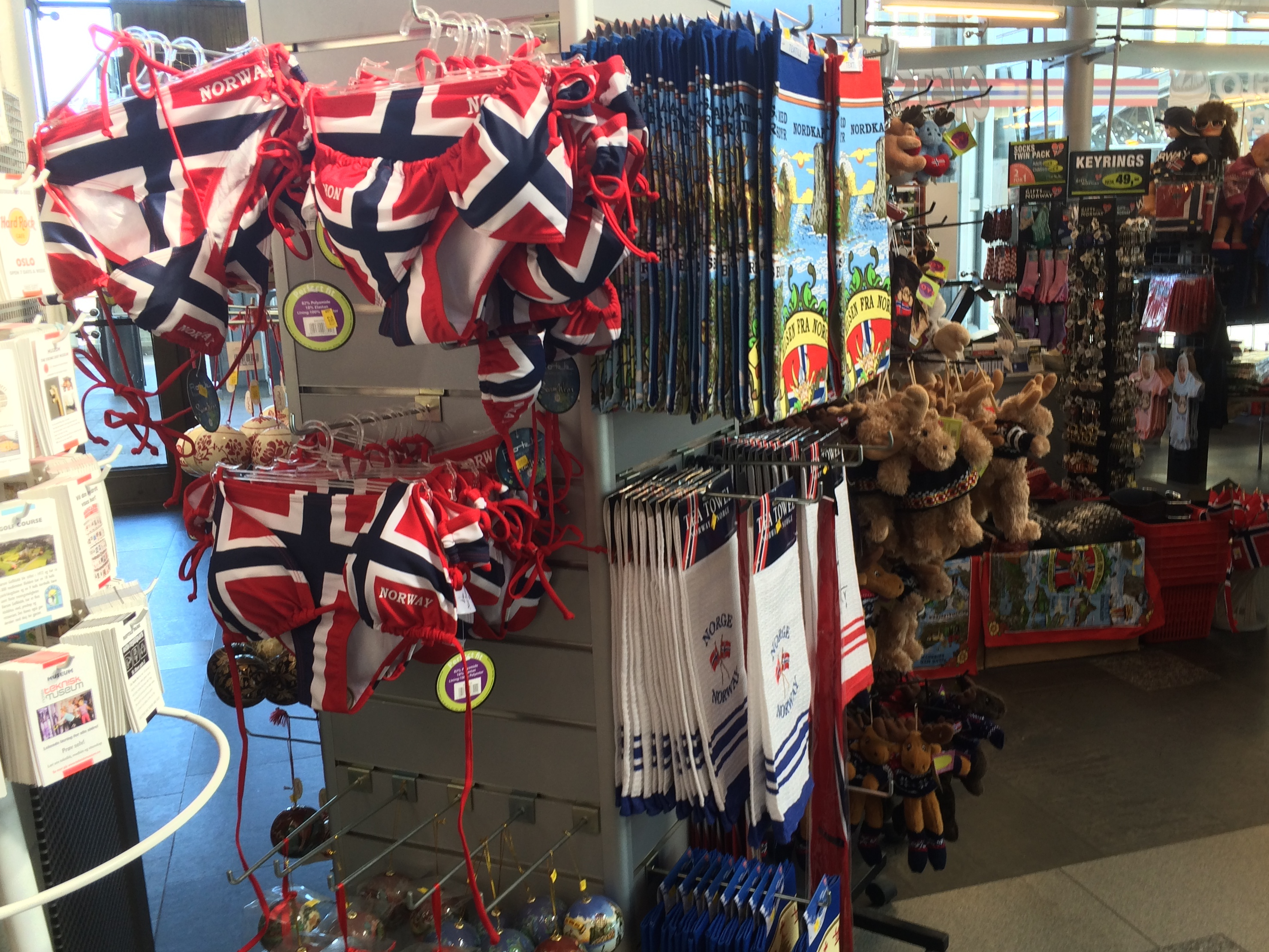 Norwegian souvenirs at a souvenir shop for tourists at Oslo Central Station, Oslo, Norway, June 2014